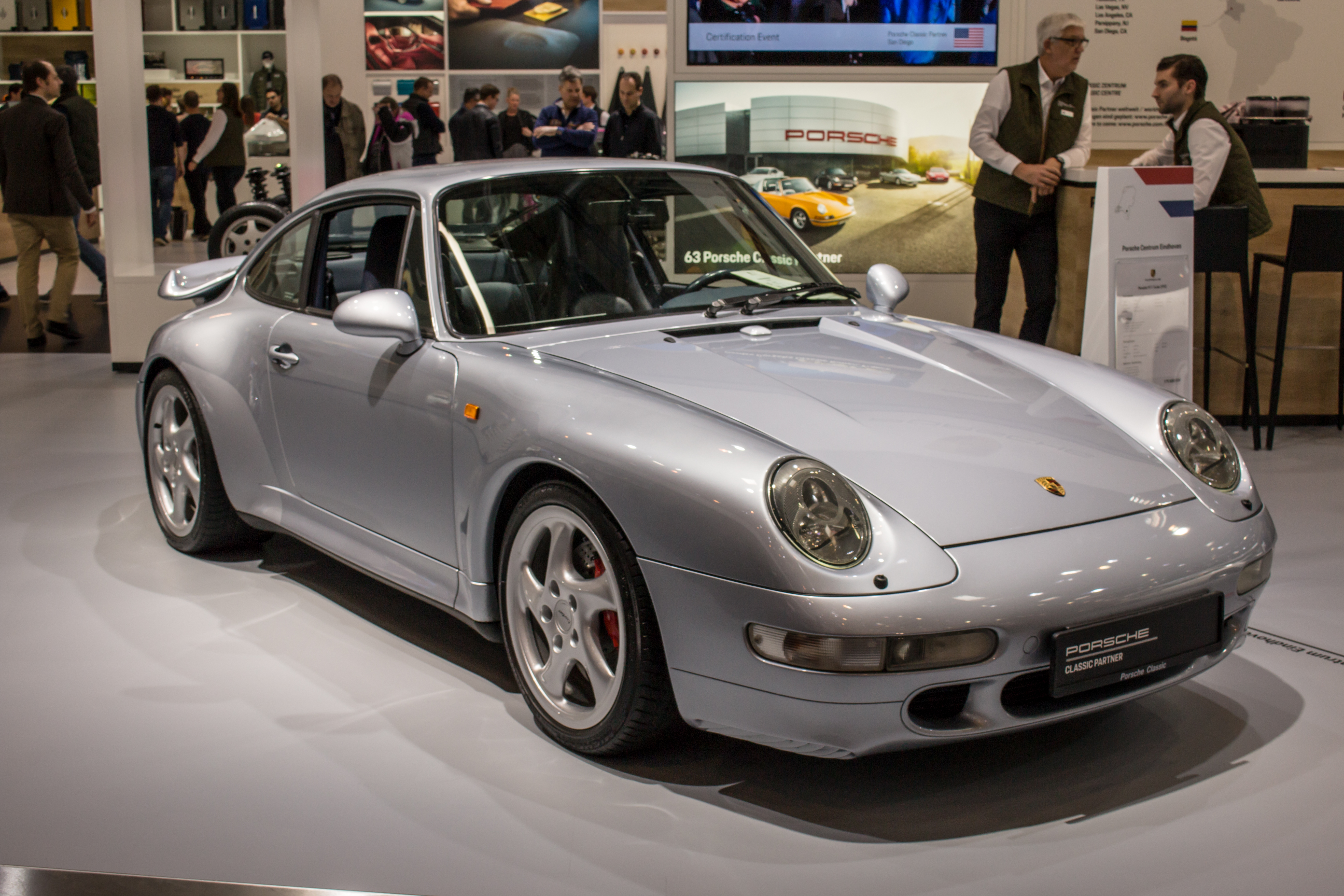 Porsche, Techno-Classica 2018, Essen